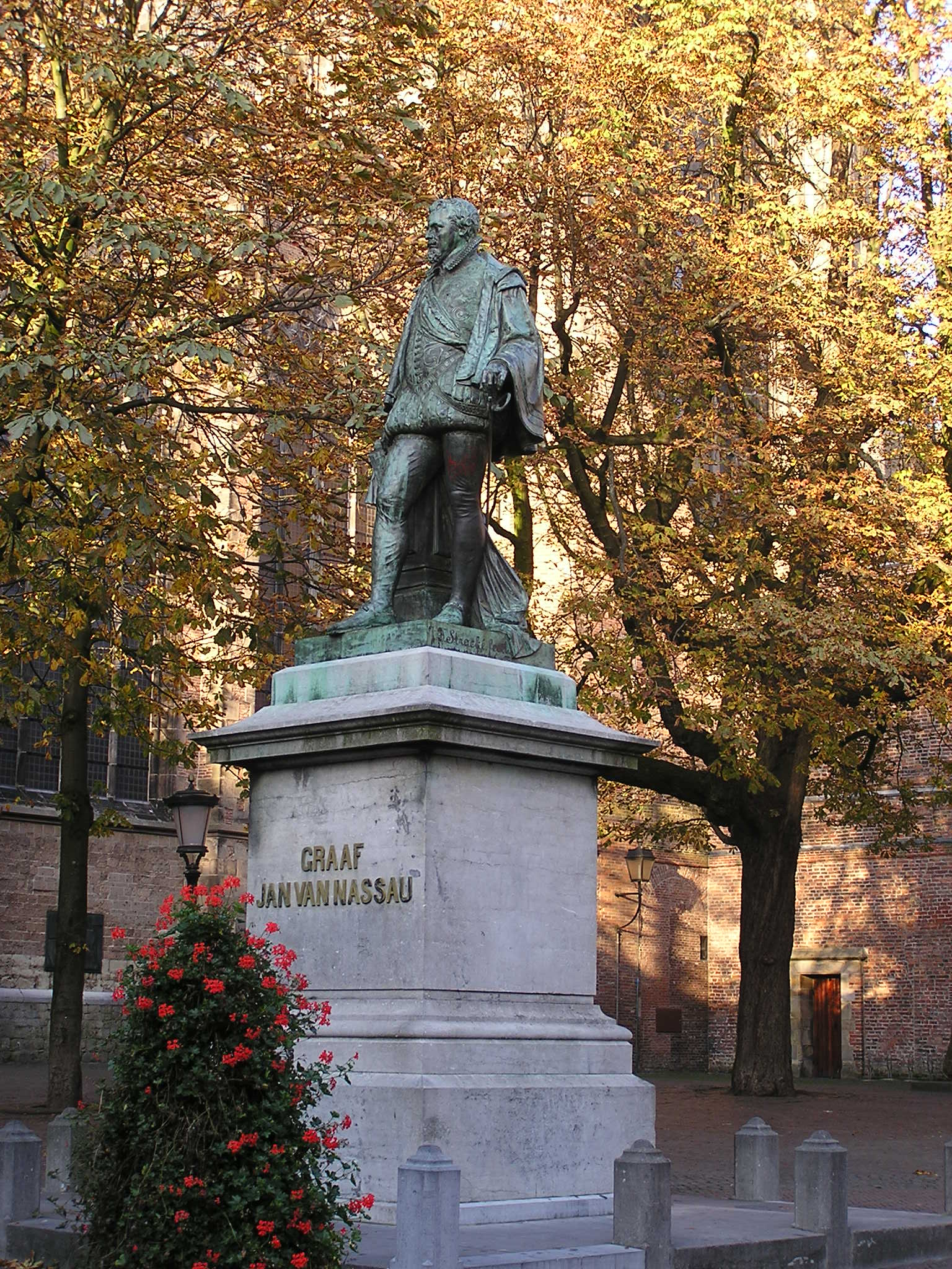 Statue of John of Nassau in Utrecht